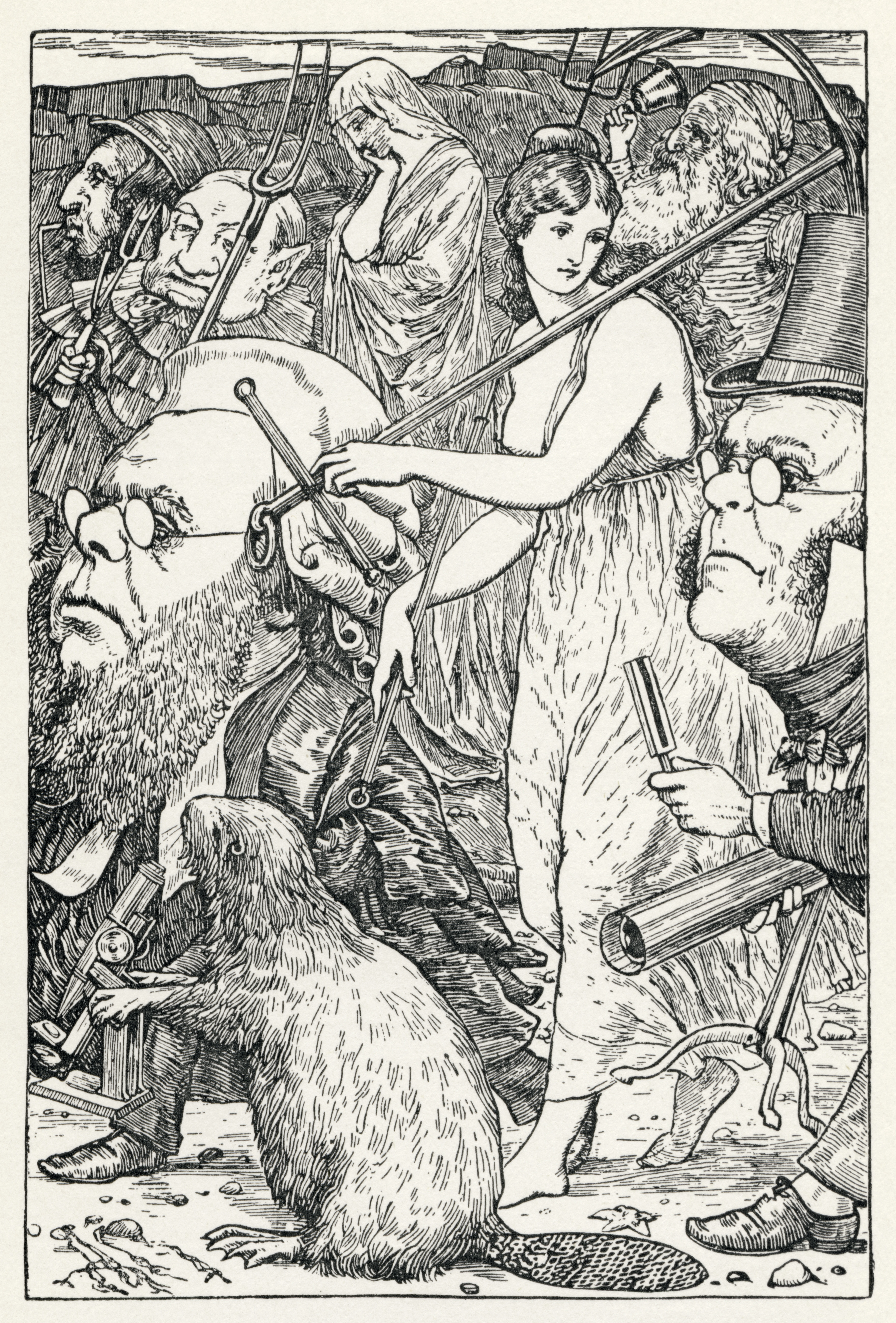 Sixth of Henry Holiday's original ilustrations to "The Hunting of the Snark" by Lewis Carroll. This is printed in Fit the Fourth: The Hunting, but arguably illustrates the start of Fit the Fifth: The Beaver's Lesson, as they are told to carry out the actions depicted in Fit the Fourth, but aren't said to do it until the start of Fit the Fifth. In Fit the Fourth, the Bellman says: ...'Tis your glorious duty to seek it [the Snark]! To seek it with thimbles, to seek it with care; To pursue it with forks and hope; To threaten its life with a railway-share; To charm it with smiles and soap. And at the start of Fit the Fifth: They sought it with thimbles, they sought it with care; They persued it with forks and hope; They threatened its life with a railway-share; They charmed it with smiles and soap.